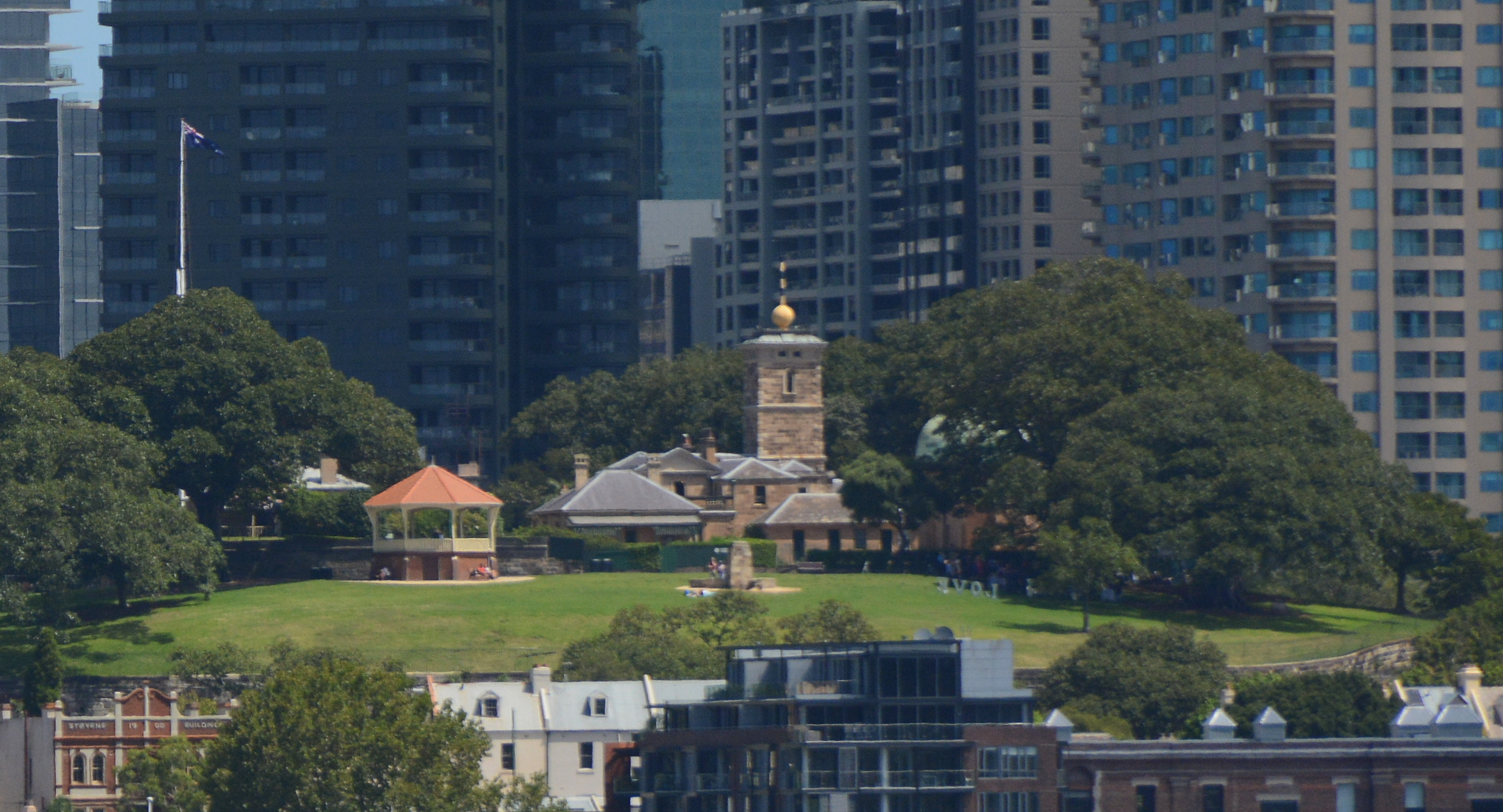 Observatory Hill, The Rocks, Sydney, seen from Clark Park, Lavender Bay, Sydney